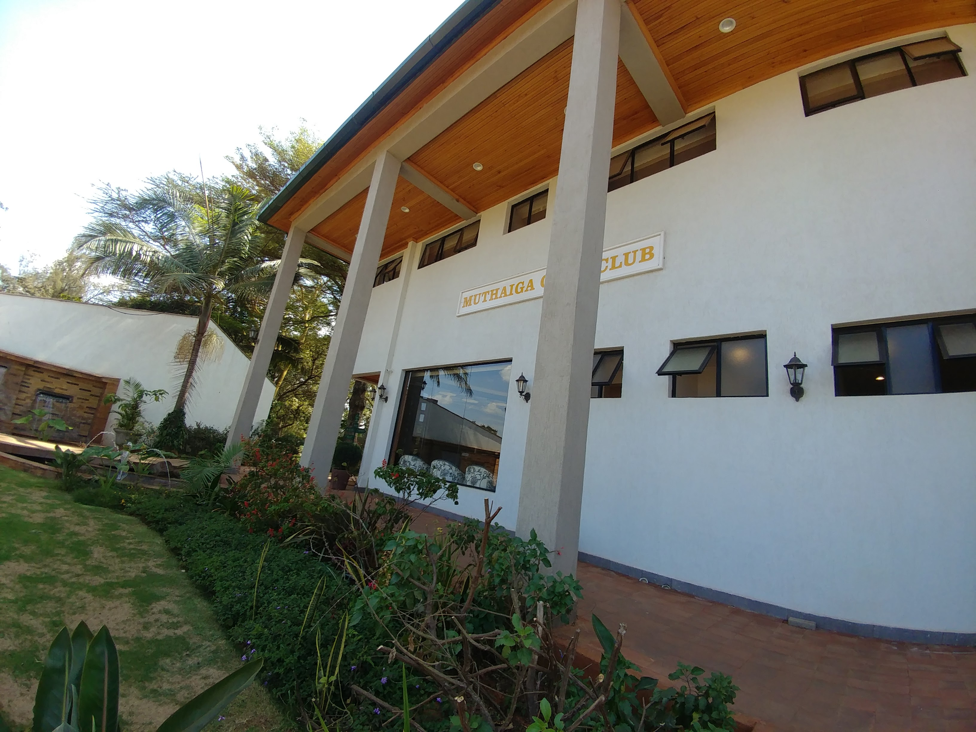 Even Africa has places you want to be. We have the standards. This is an image of "African people at work" from Kenya